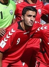 Norlla Amiri, goalkeeper of Afghanistan before match with Japan, 2018 FIFA World Cup qualification, Azadi Stadium, Tehran